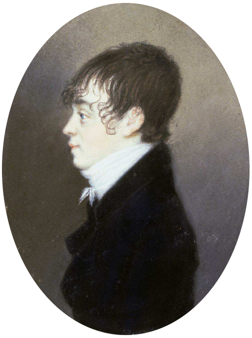 Jeremias Cornelis Faber van Riemsdijk (1786-1863), deputy and acting mayor of The Hague, member Provincial Council of South Holland, member lower house of parliament, member Council of State in extraordinary service.